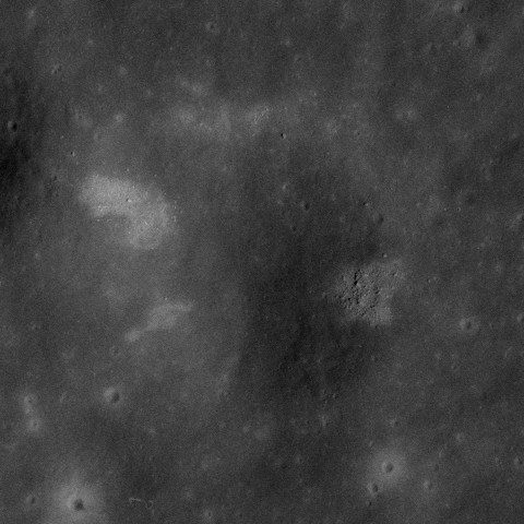 Hess crater, Taurus–Littrow valley, on the moon. Sun elevation 46 deg., spacecraft altitude 112 km.